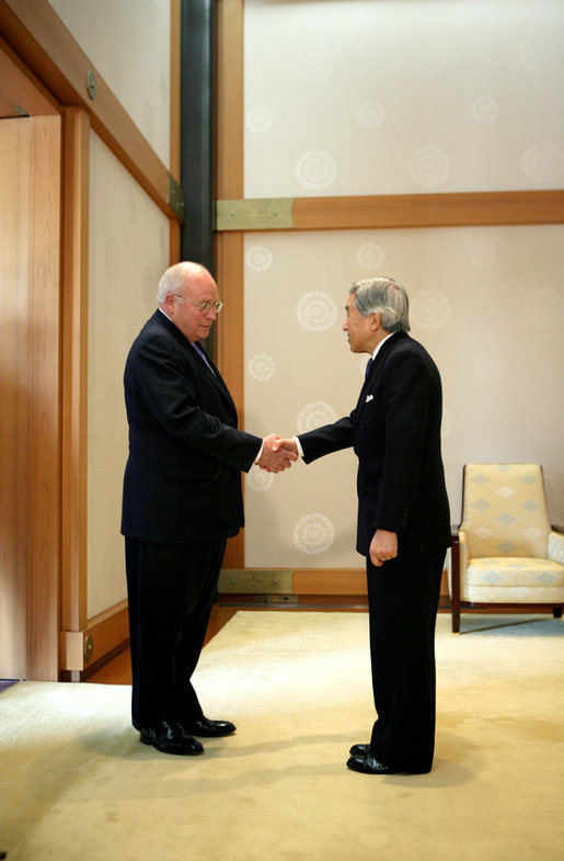 Emperor Akihito meets Dick Cheney.